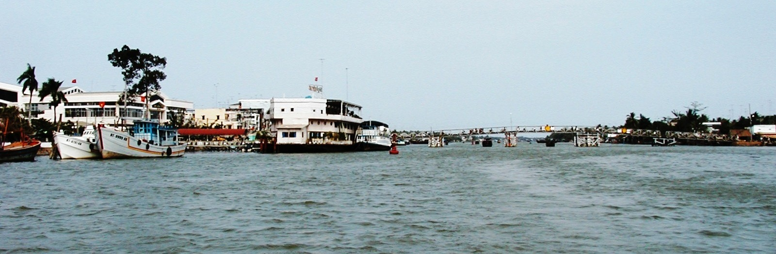 River port on Ben Tre river at Ben Tre city.